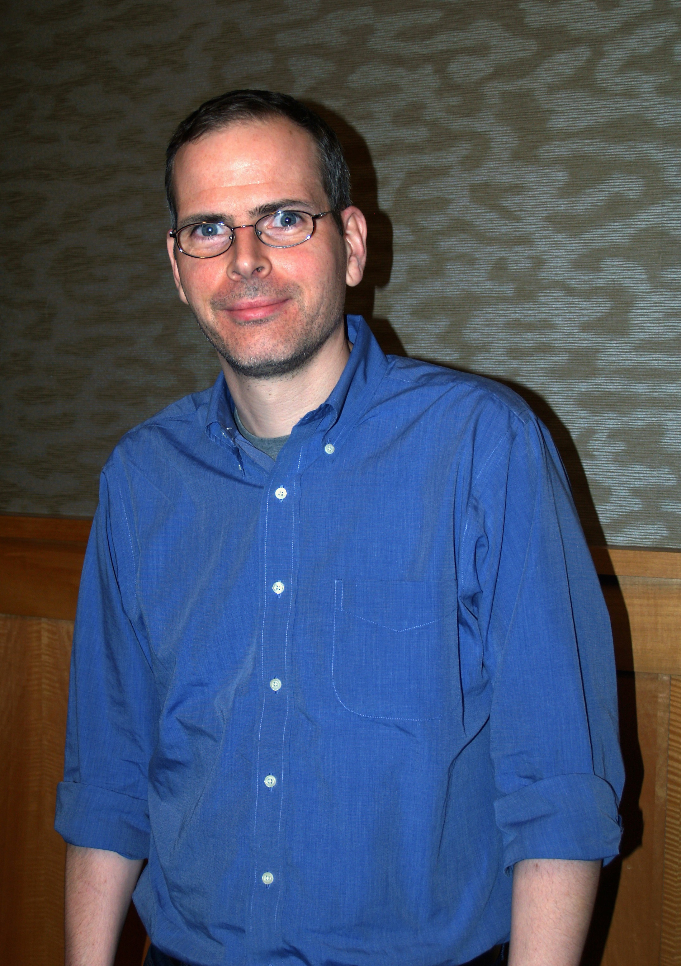 Emmy Award-winning comedy writer Tim Carvell at a November 13, 2013 book signing for Inside Mad, a collection of material from Mad magazine, at the Barnes & Noble bookstore on East 86th Street in Manhattan. The signing was preceded by a visual presentation and a Q&A with him and other Mad creators. This photo was created by Luigi Novi. It is not in the public domain, and use of this file outside of the licensing terms is a copyright violation.